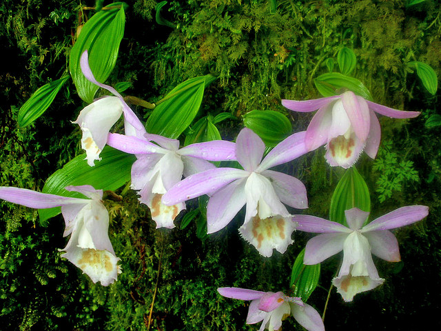 Orchid and it's purple haze